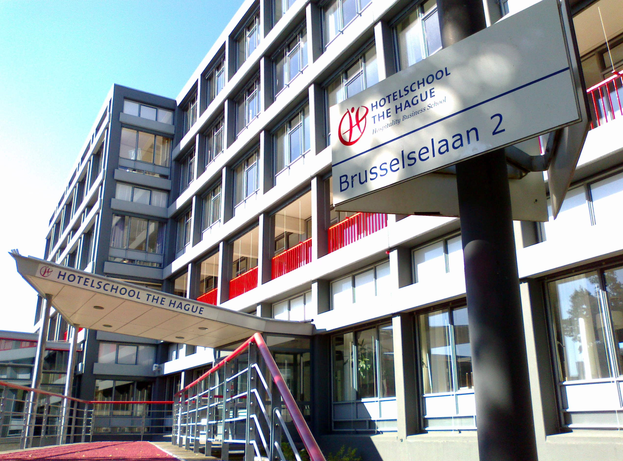 Hotelschool The Hague, main building at Brusselselaan, The Hague